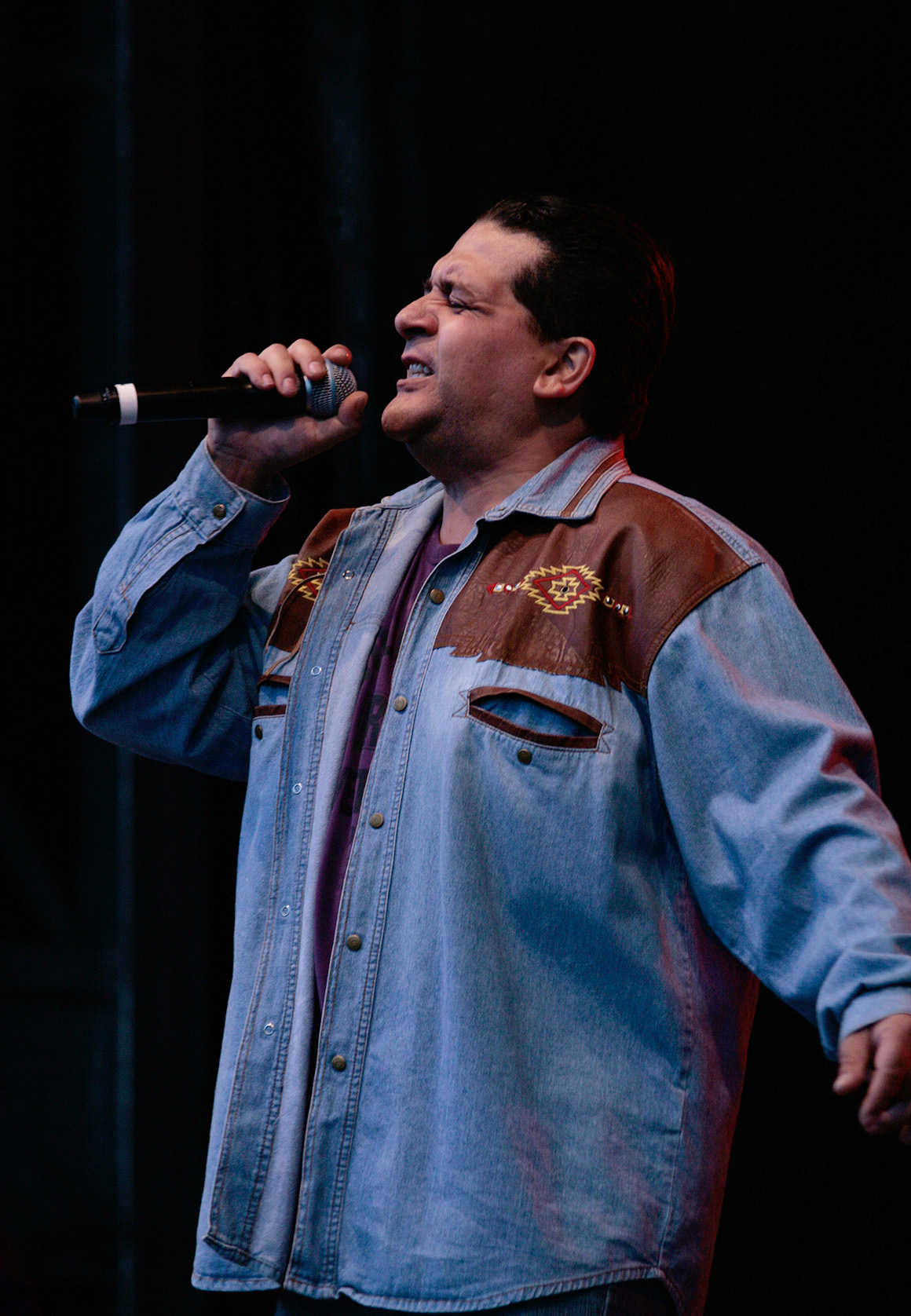 Tony Wegas, in concert with Claudia K.'s Woodstock Project at the Kaiserwiese (Prater, Vienna).